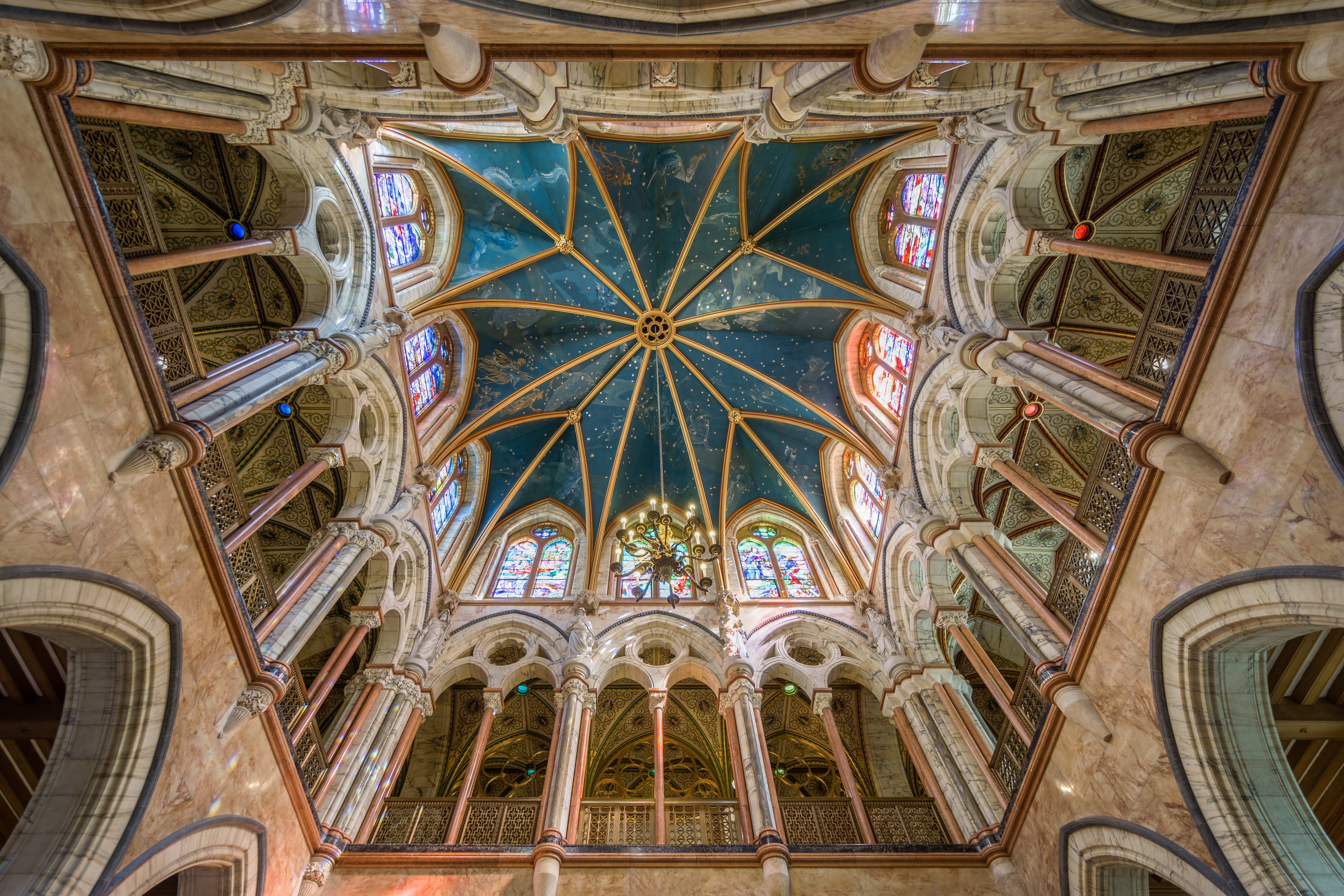 Mount Stuart House marble hall. Wikidata has entry Q1545344 with data related to this item.